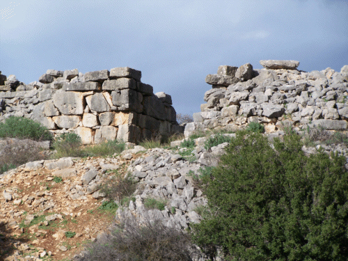 own image, taken winter/spring 2007